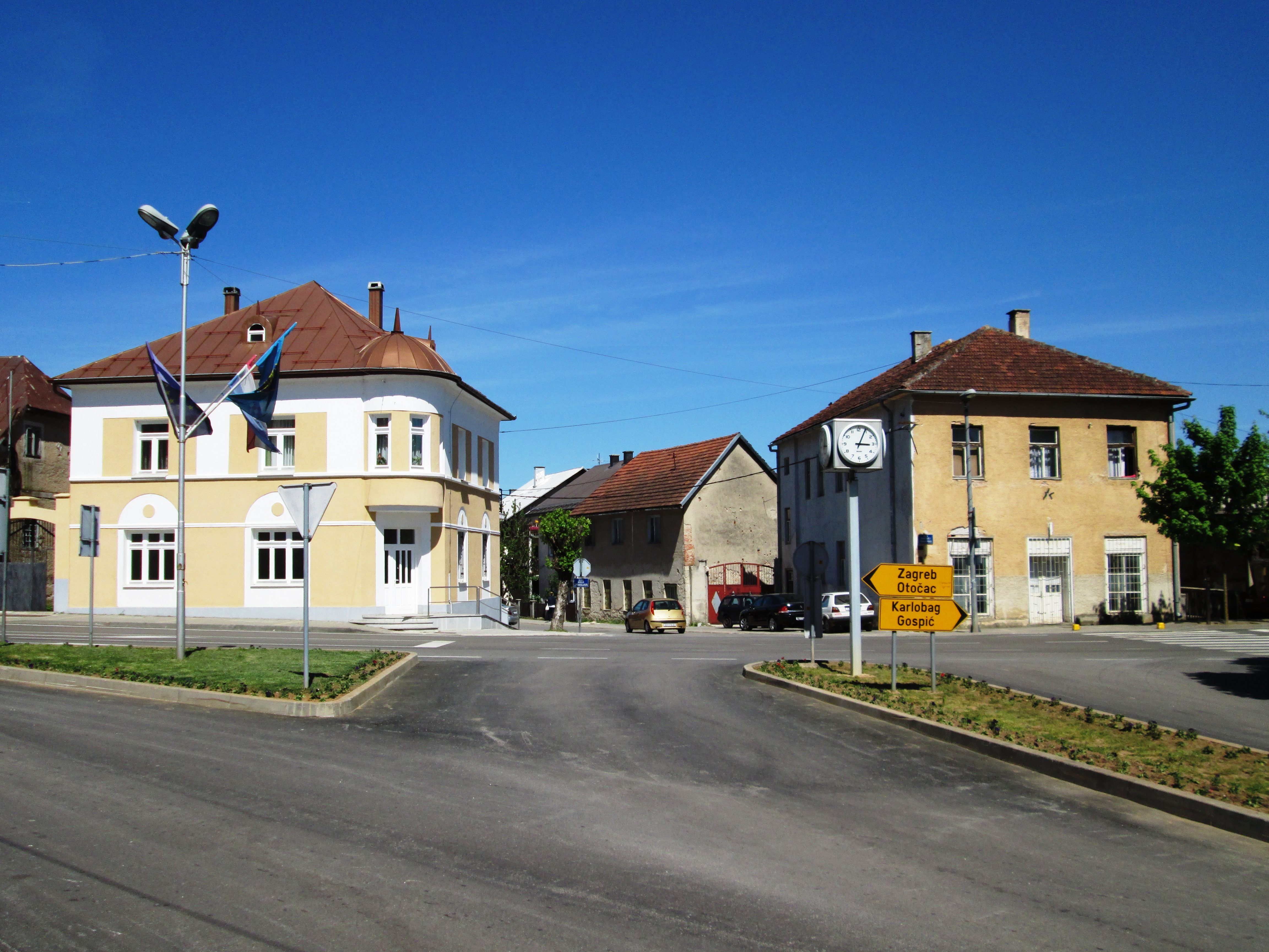 Village of Perusic, Lika Region, Croatia